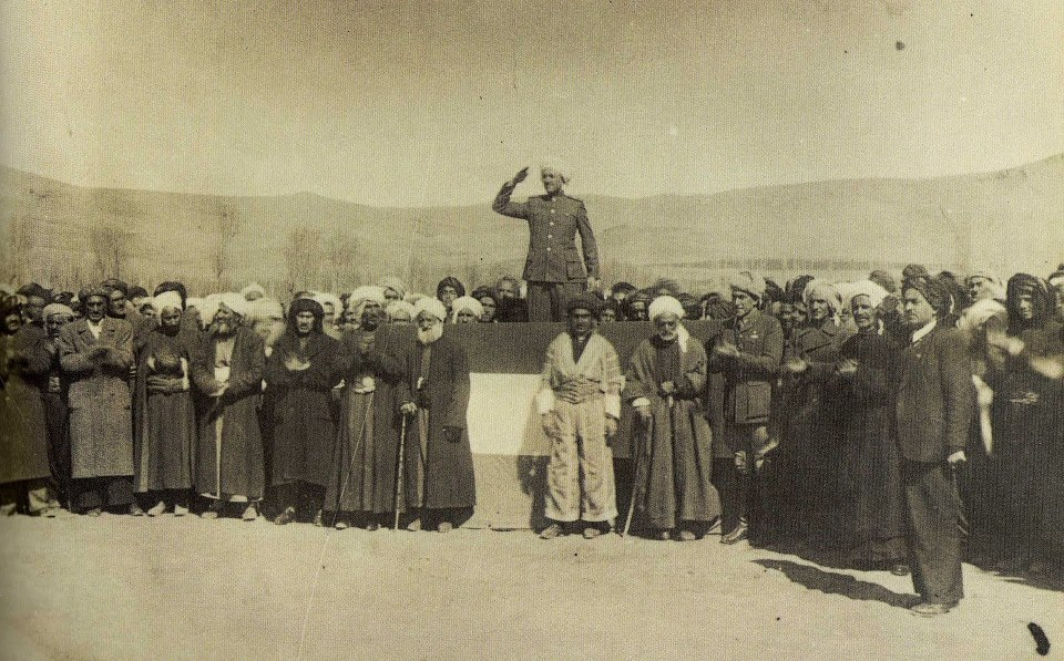 Mustafa Barzani (Kurdish: مستەفا بارزانی Mistefa Barzanî) (March 14, 1903 – March 1, 1979) also known as Mullah Mustafa was a Kurdish nationalist leader, and the most prominent political figure in modern Kurdish politics.